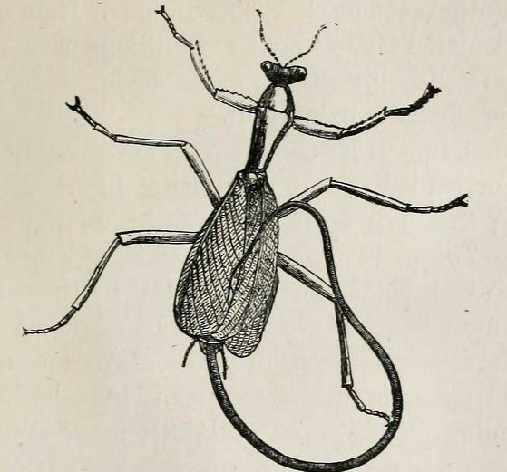 Gordius fulgur Baird, 1861; Gordiidae; escaping from a mantid